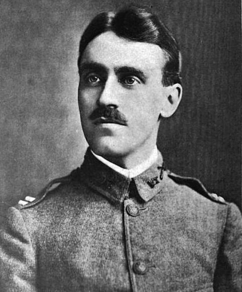 Lee S. Tillotson, Adjutant General of Vermont (1910-1917)